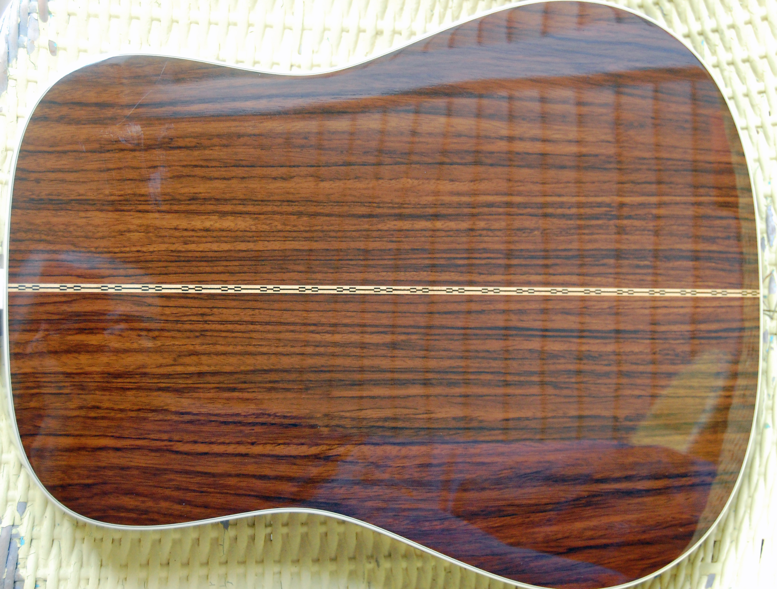 Back of a guitar (a Martin D-28) with East Indian rosewood